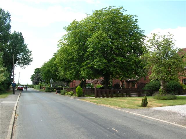 Fangfoss, East Riding of Yorkshire, England.